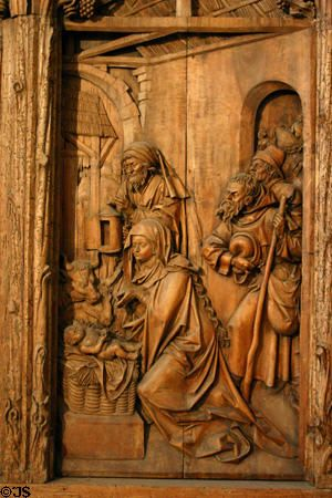 Particolare dell'Altare di Bergheim